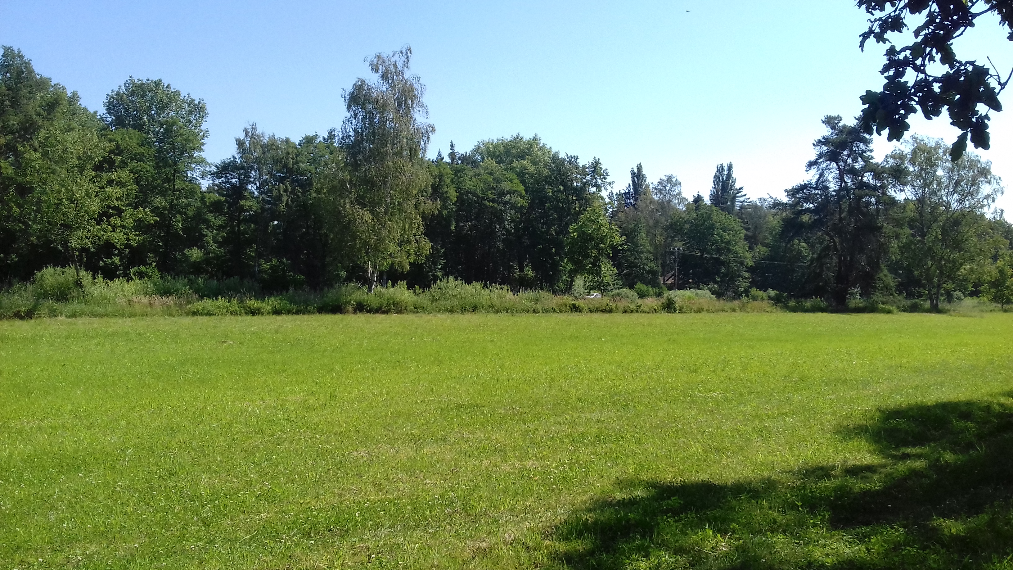 Natural monument Slatinná louka u Velenky, Hradištko, Czech Republic